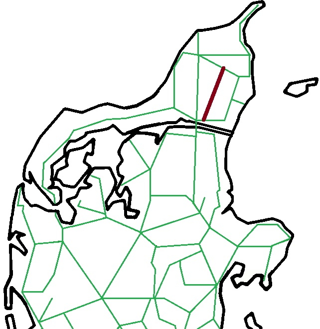 Map of railways in Northern Jutland in Denmark with the private railway Vodskov-Østervraa Banen in brown.